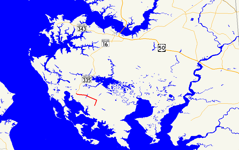 Map of Maryland Route 336